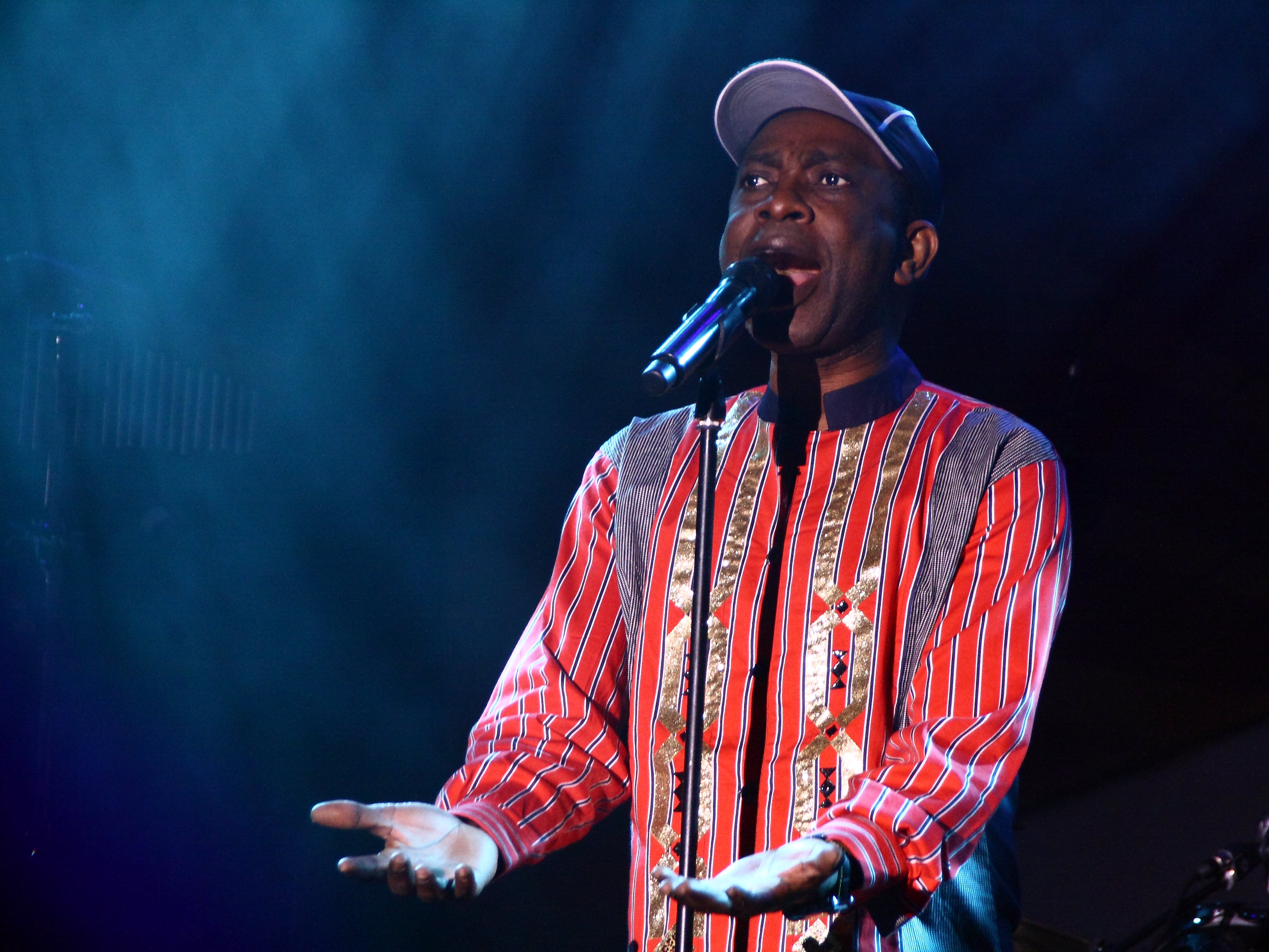 Youssou N´Dour & Le Super Étoile de Dakar playing in a rainy night at TFF Rudolstadt.